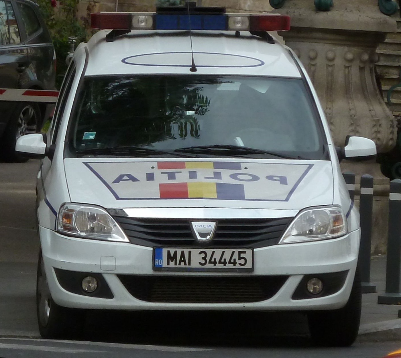 Dacia Logan as police car in Bucharest, Romania